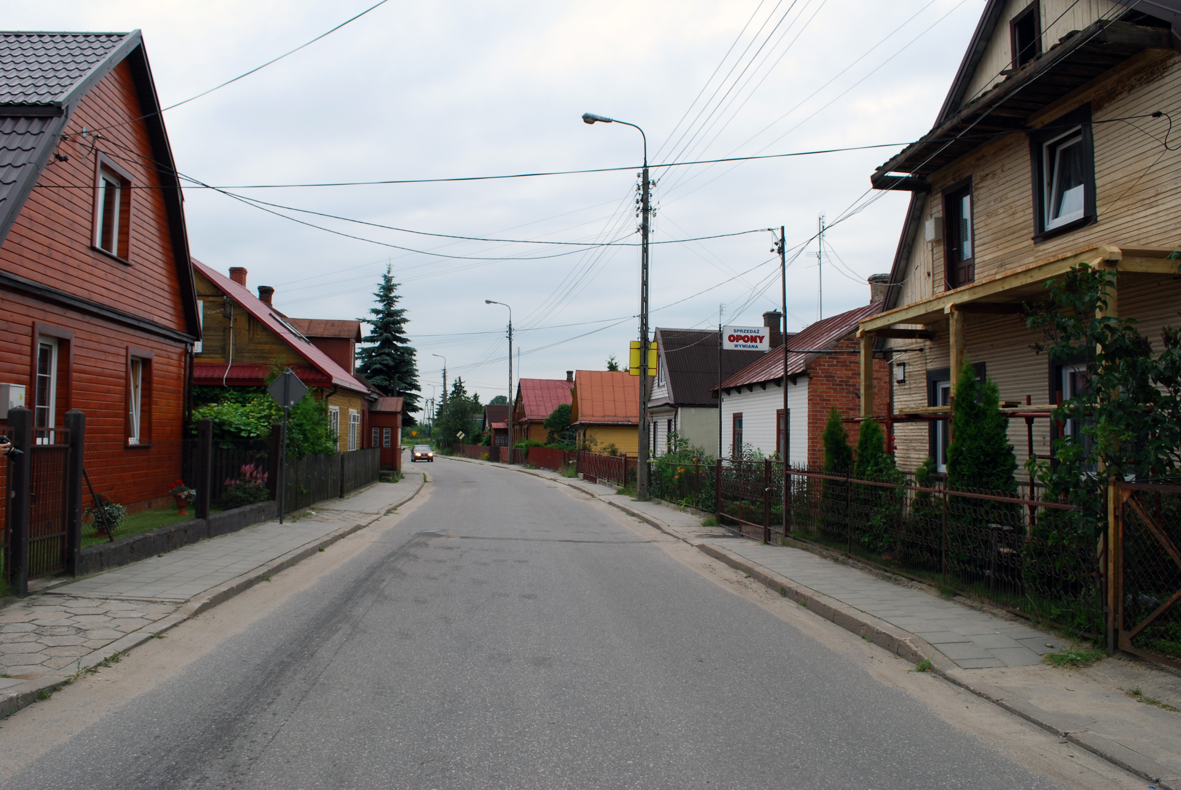 This photo from Podlaskie Voievodeship was taken during Polish Wikiexpedition 2009 set up by Wikimedia Polska Association. The making of this document was supported by Wikimedia Polska. ul. Warszawska w Hajnówce.